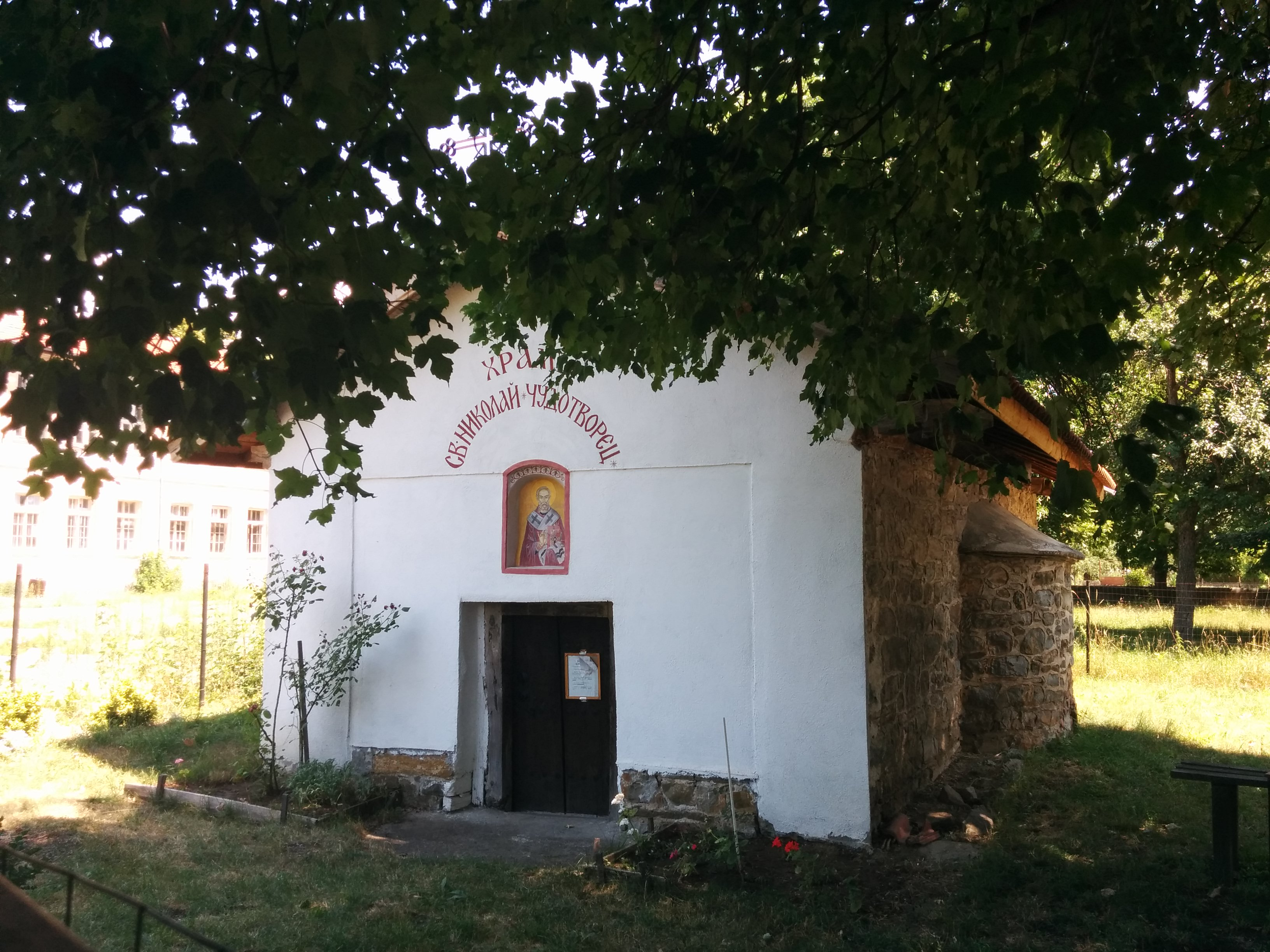 St. Nicholas church in Dolni Rakovets, circa XV - XVII century